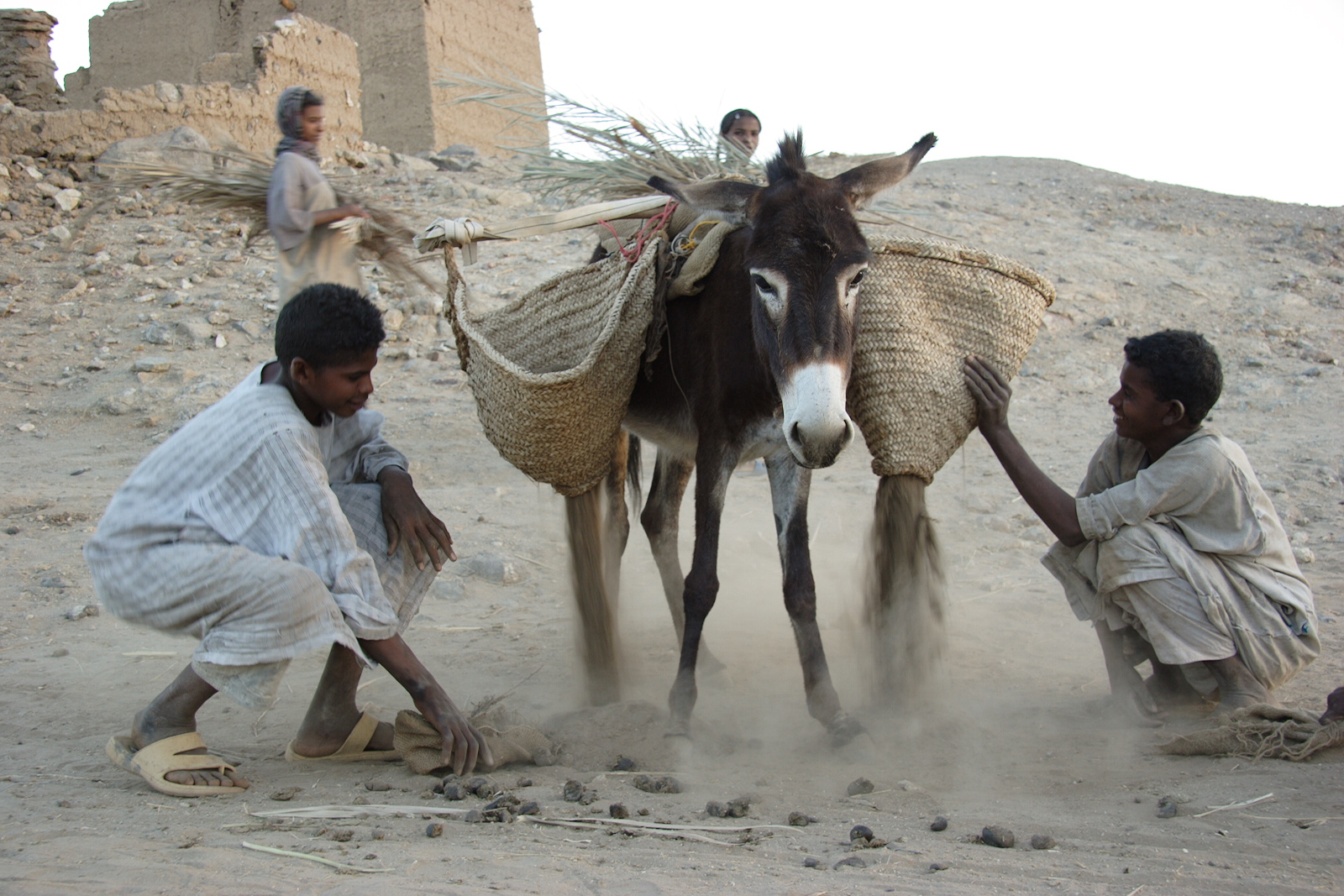 Demonstration of the traditional Rahal pack basket in Mideimir, Dar al-Manasir, Northern Sudan.